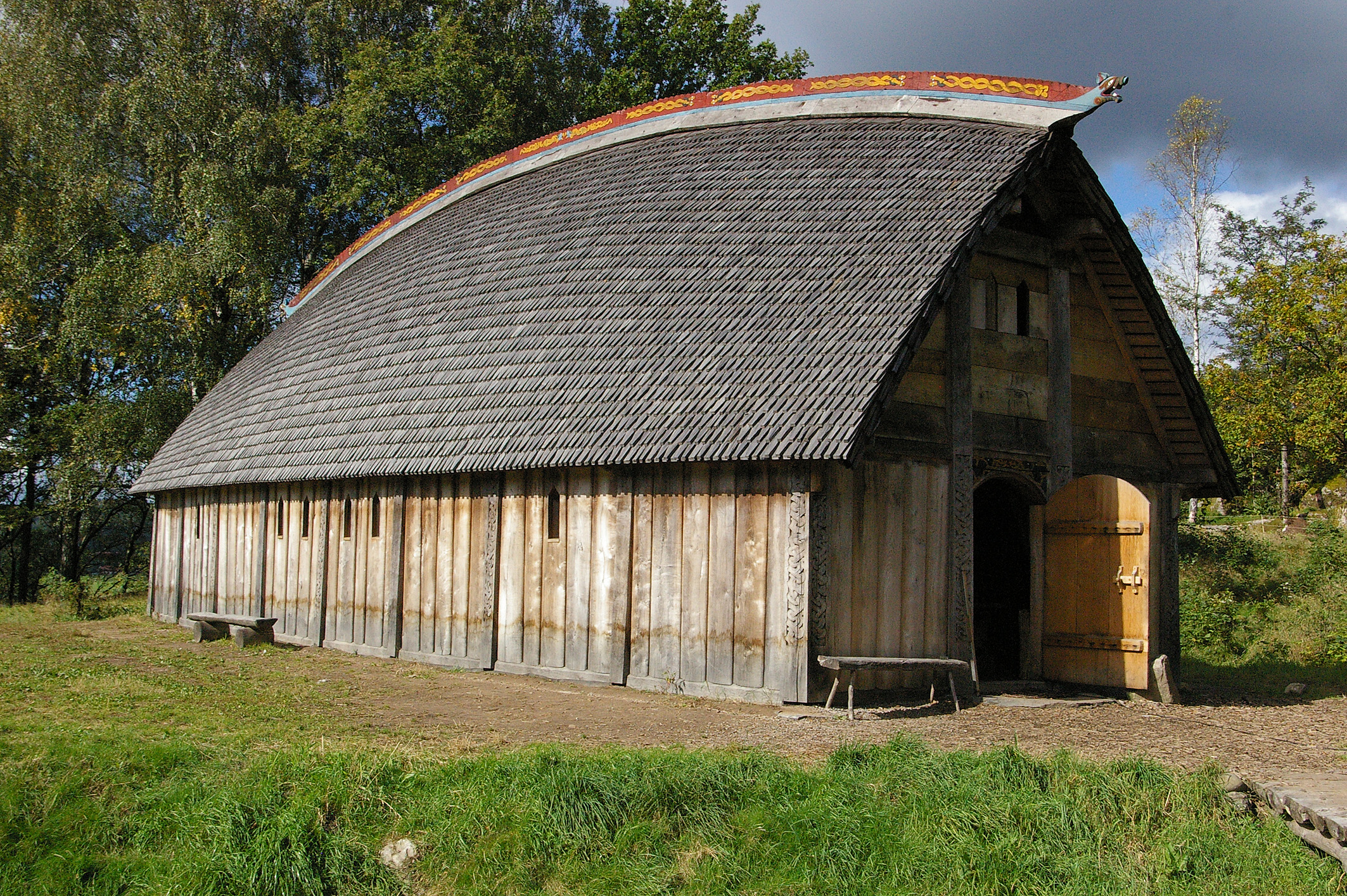 Rekonstructed Viking house i Ale north of Göteborg in Sweden.